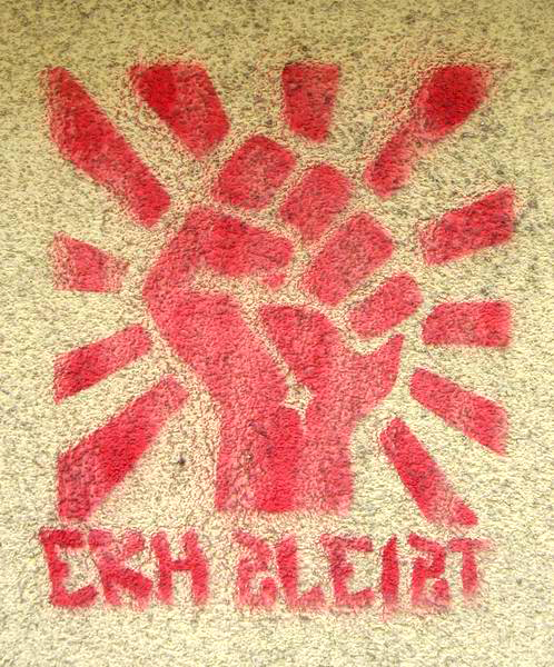 photography of pochoir graffiti - ekh bleibt